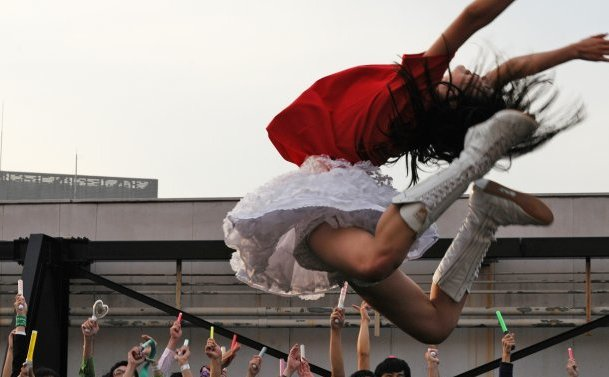 Kanako Momota is a member of Momoiro Clover Z, Japanese "idol" group. She does "Shrimp Jump" during a song called "Ikuze! Kaitō Shōjo".